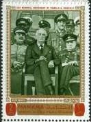 Big Three World War II leaders: Joseph Stalin, Winston Churchill, and Franklin Roosevelt, on the stamp of Ajman, 1970